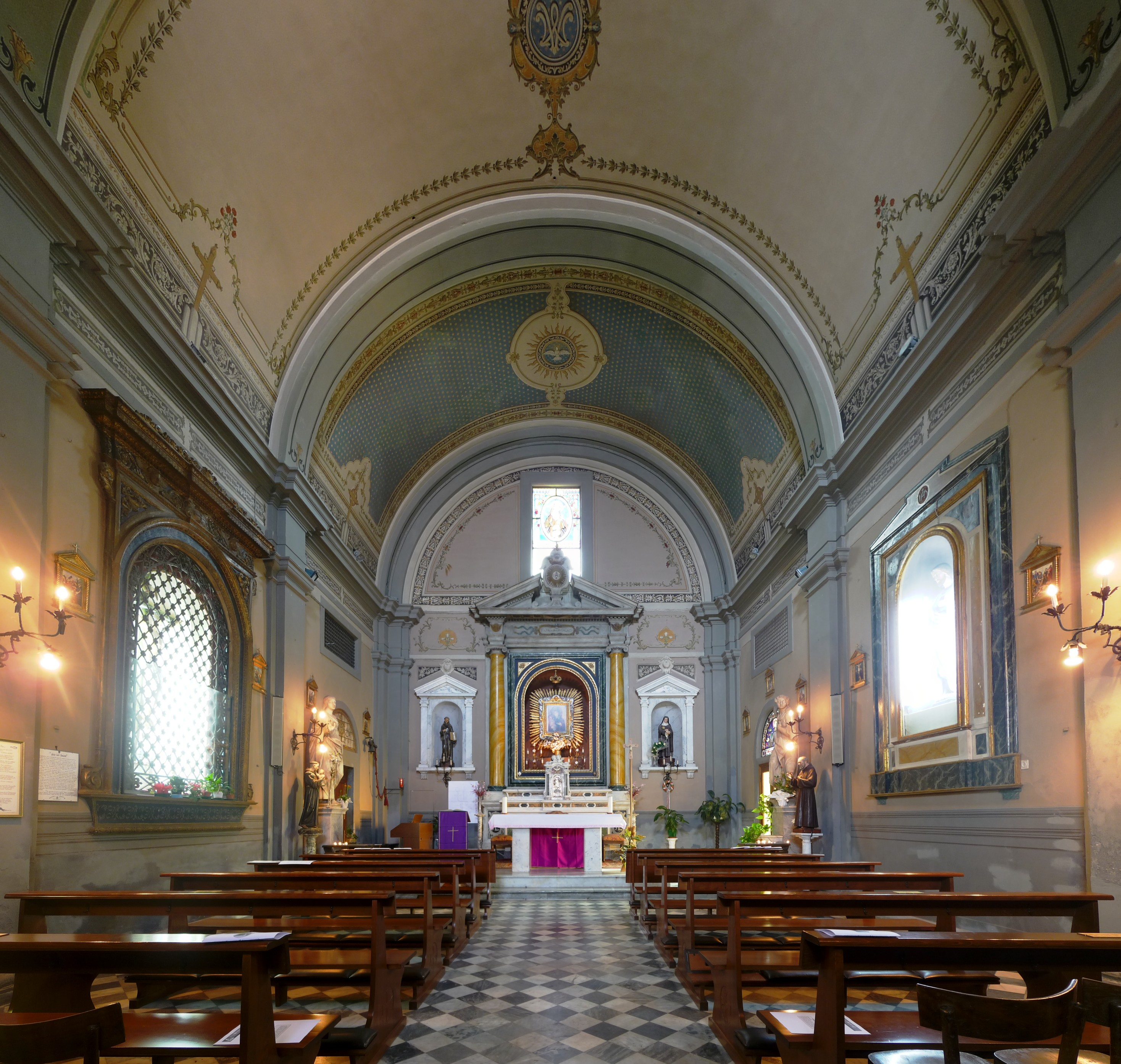 Chiesa di Santa Chiara, Pisa, Italy